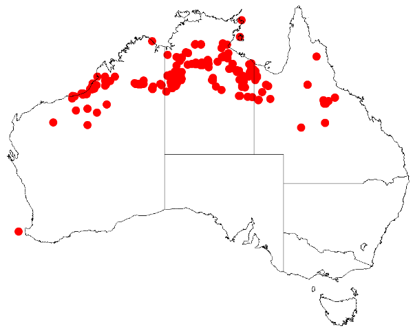 Acacia drepanocarpa Occurrence data from Australasia Virtual Herbarium downloaded from on 8 December 2018